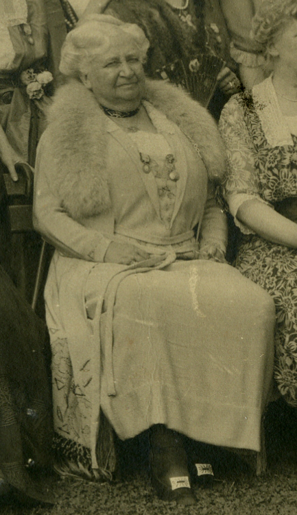 A cropped image of Alice Mary Longfellow from a group photo of the Mount Vernon Ladies' Association in 1921.